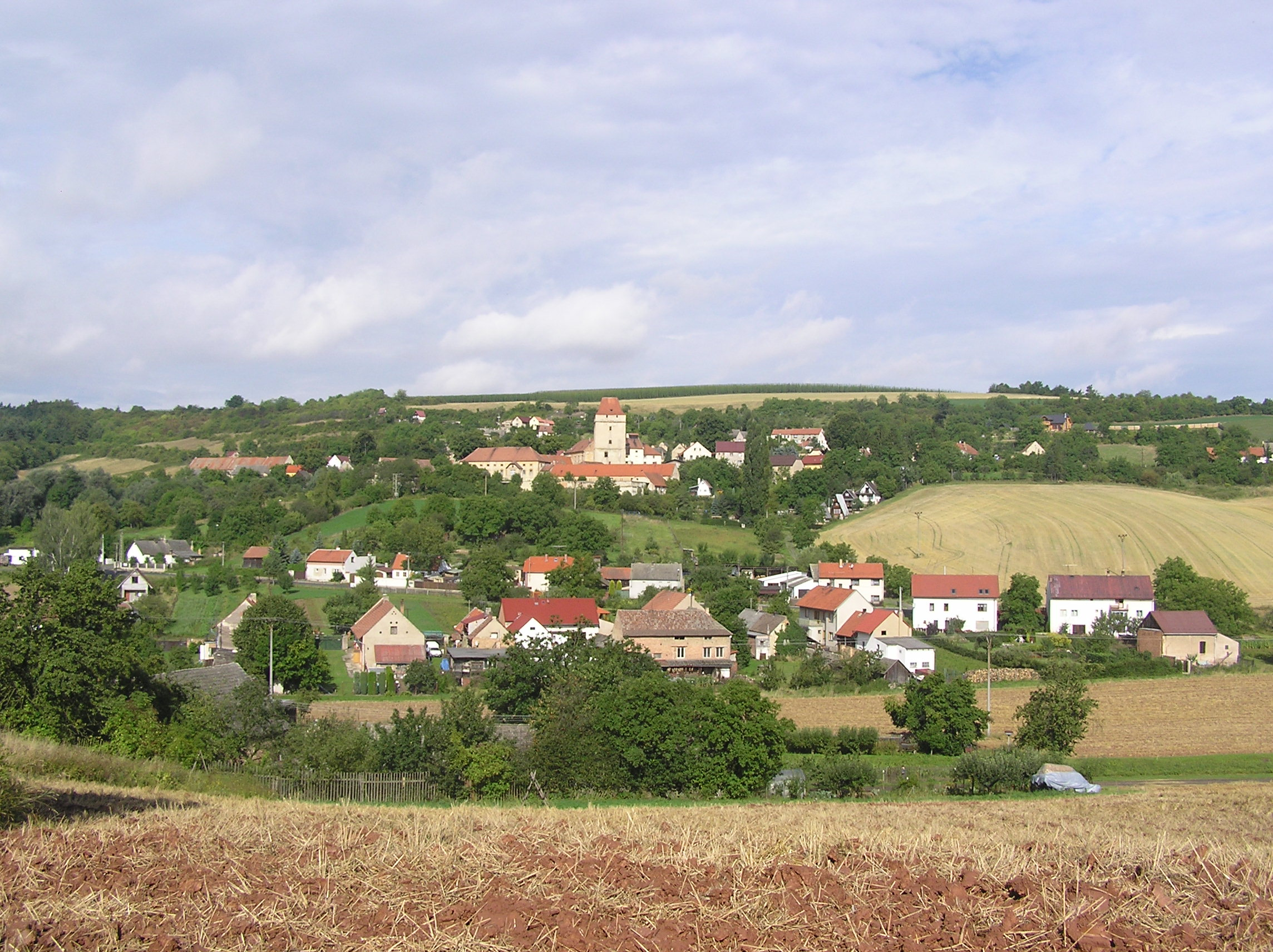 Divice - total view